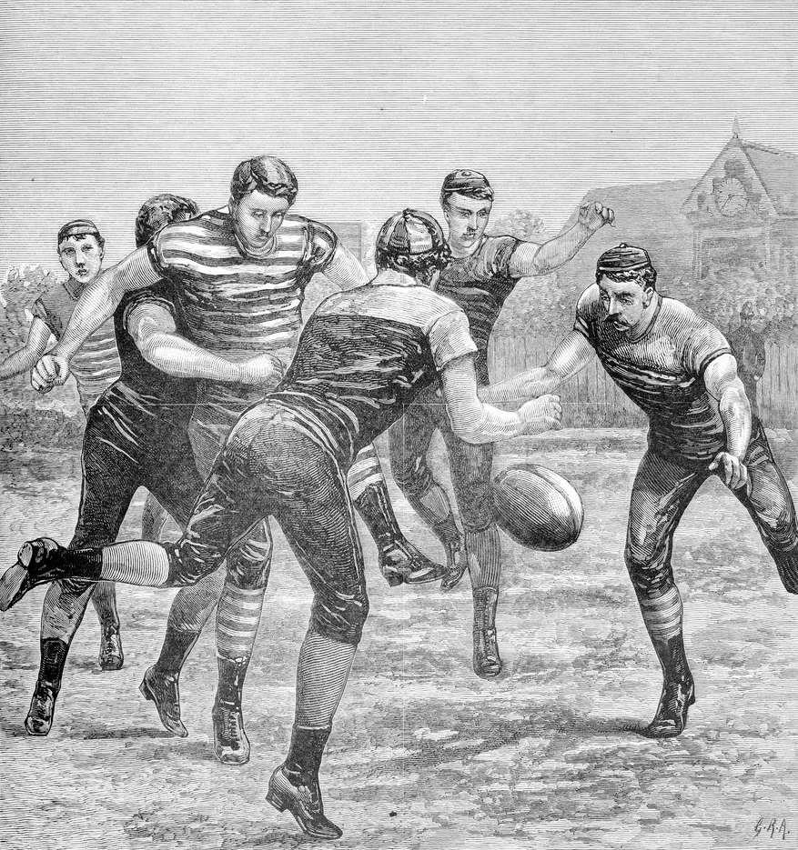 "A football match: Carlton v. Melbourne" - Wood engraving of an Australian rules football match.